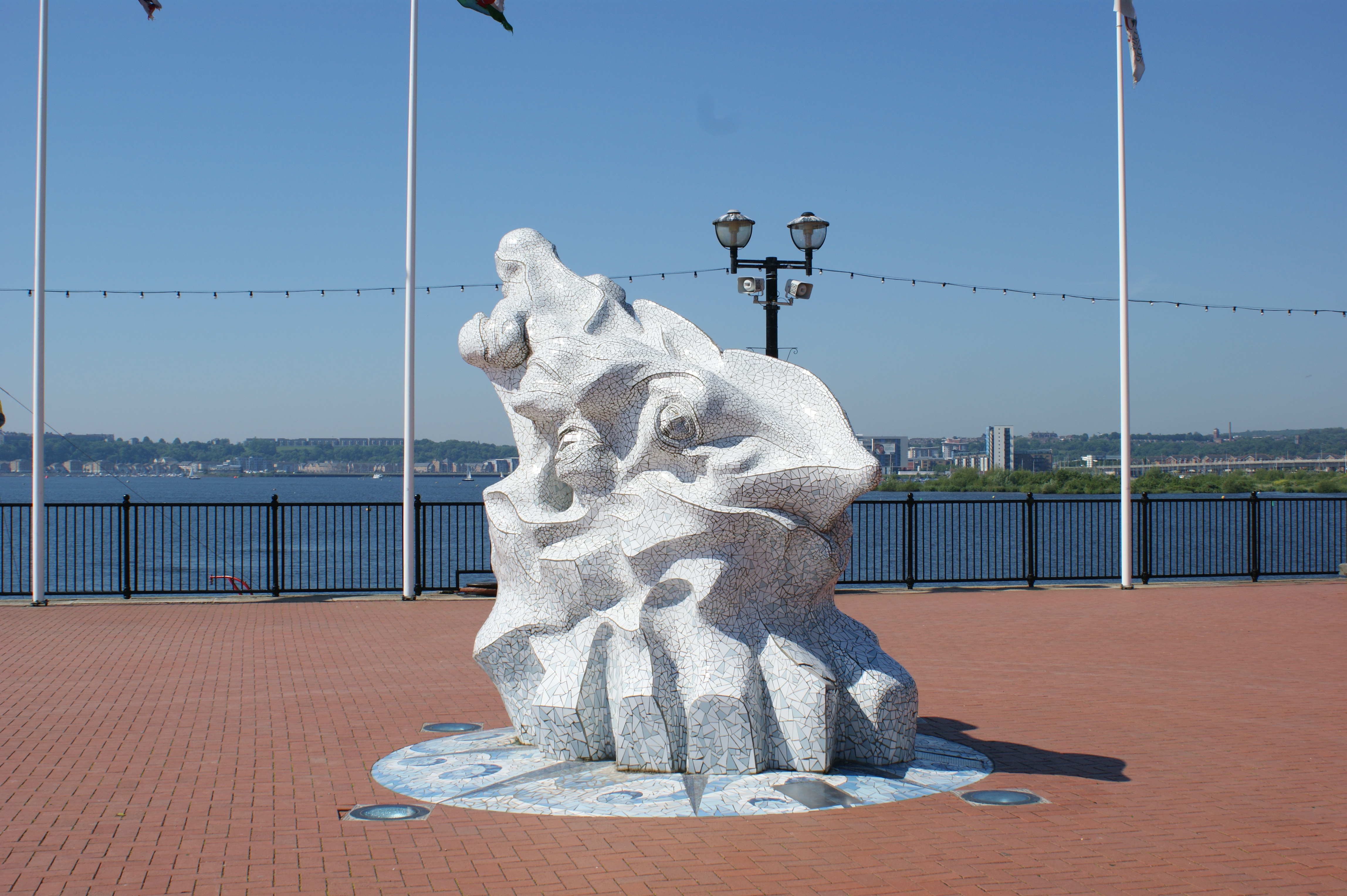 Captain Scott Memorial Cardiff